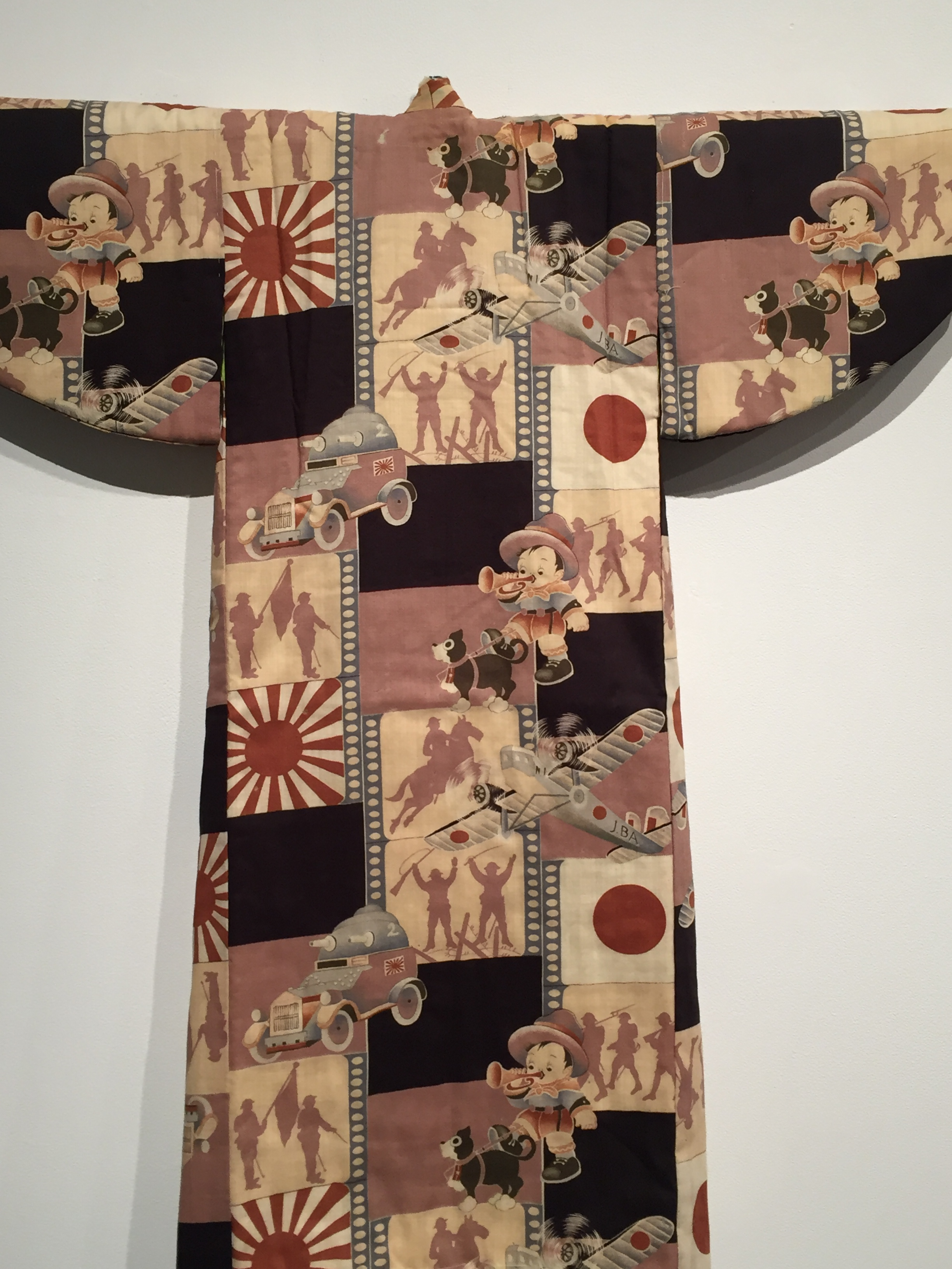 Norakuro, Boy’s Kimono, c.1933. Material: wool; dimensions: 34h x 32w in. Picture taken-2015-10-24 16.42.17.jpg